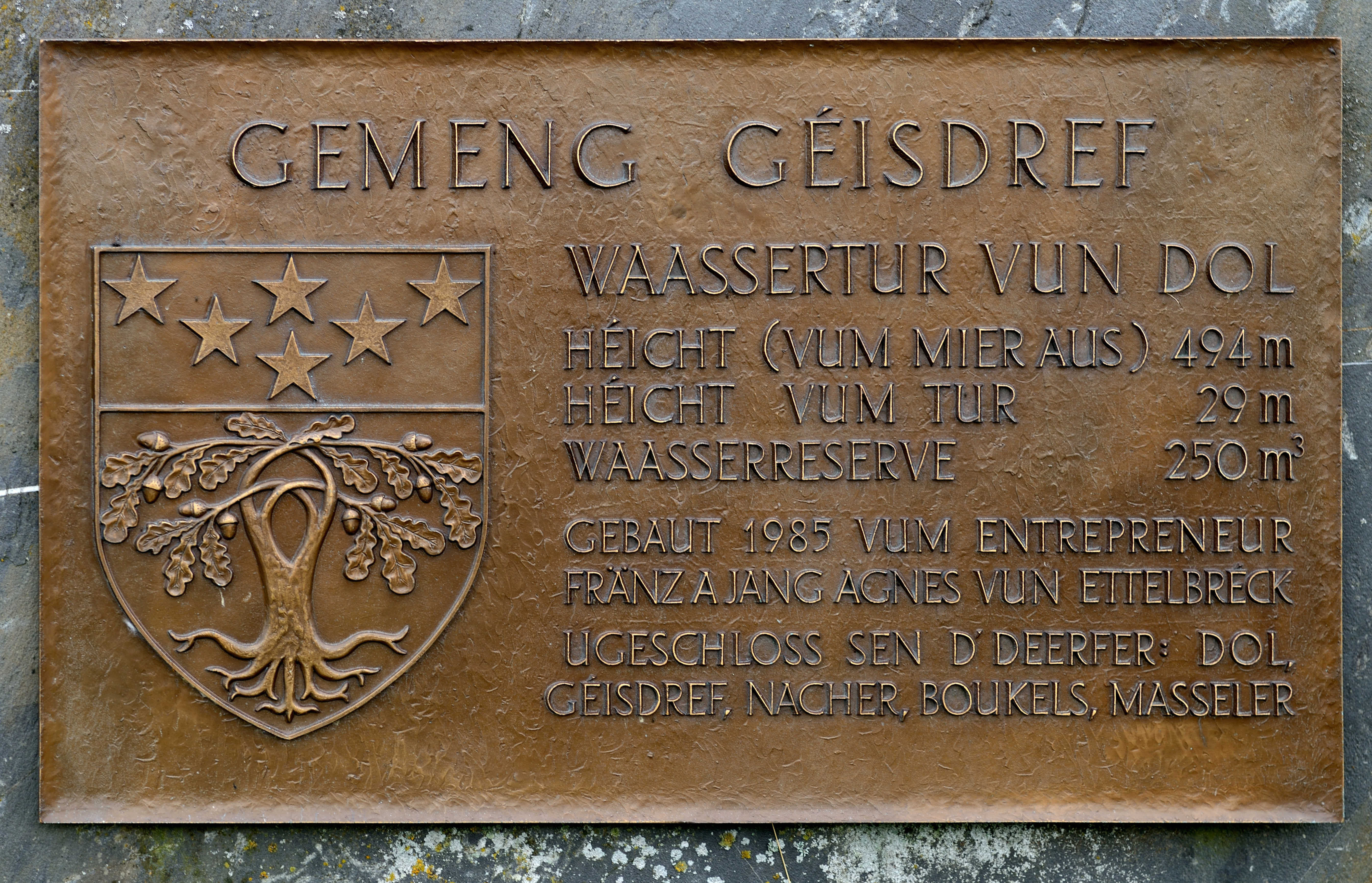 Plaque at the foot of the water tower of Dahl, Luxembourg. The inscription is in Luxembourgish.